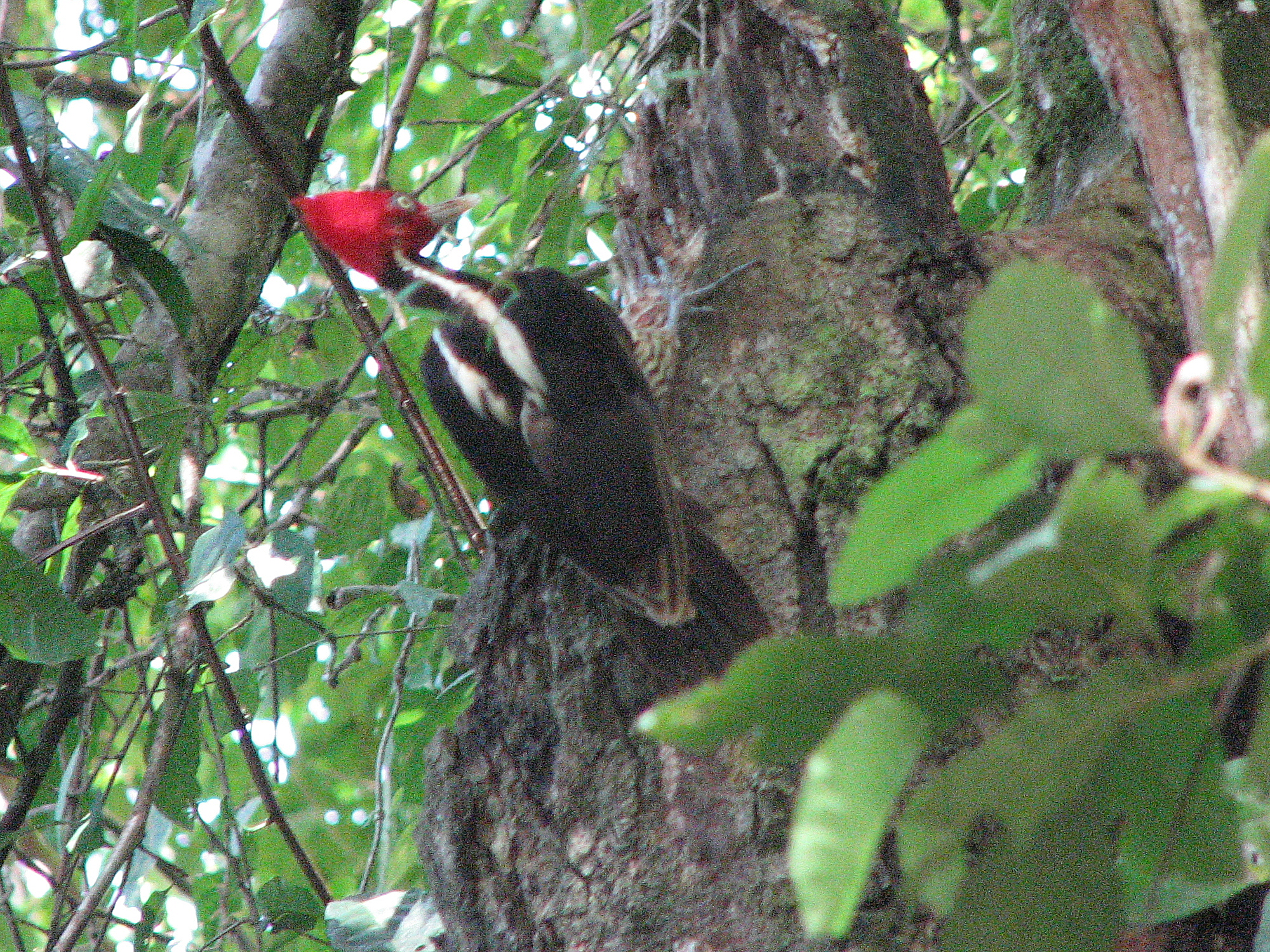 Pale-billed Woodpecker (Campephilus guatemalensis) taken in Manuel Antonio National Park, Costa Rica